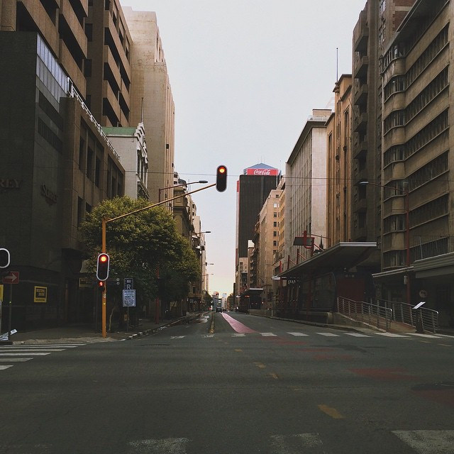 Some drive-by shooting while passing through Johannesburg / #madewithfaded @madewithfaded #skrwt @doyouskrwt #doyouskrwt #allhailsymmetry #symmetry #city @cityofjohannesburg #cityofjohannesburg @igersjozi #driveby #sunset #goldenhour